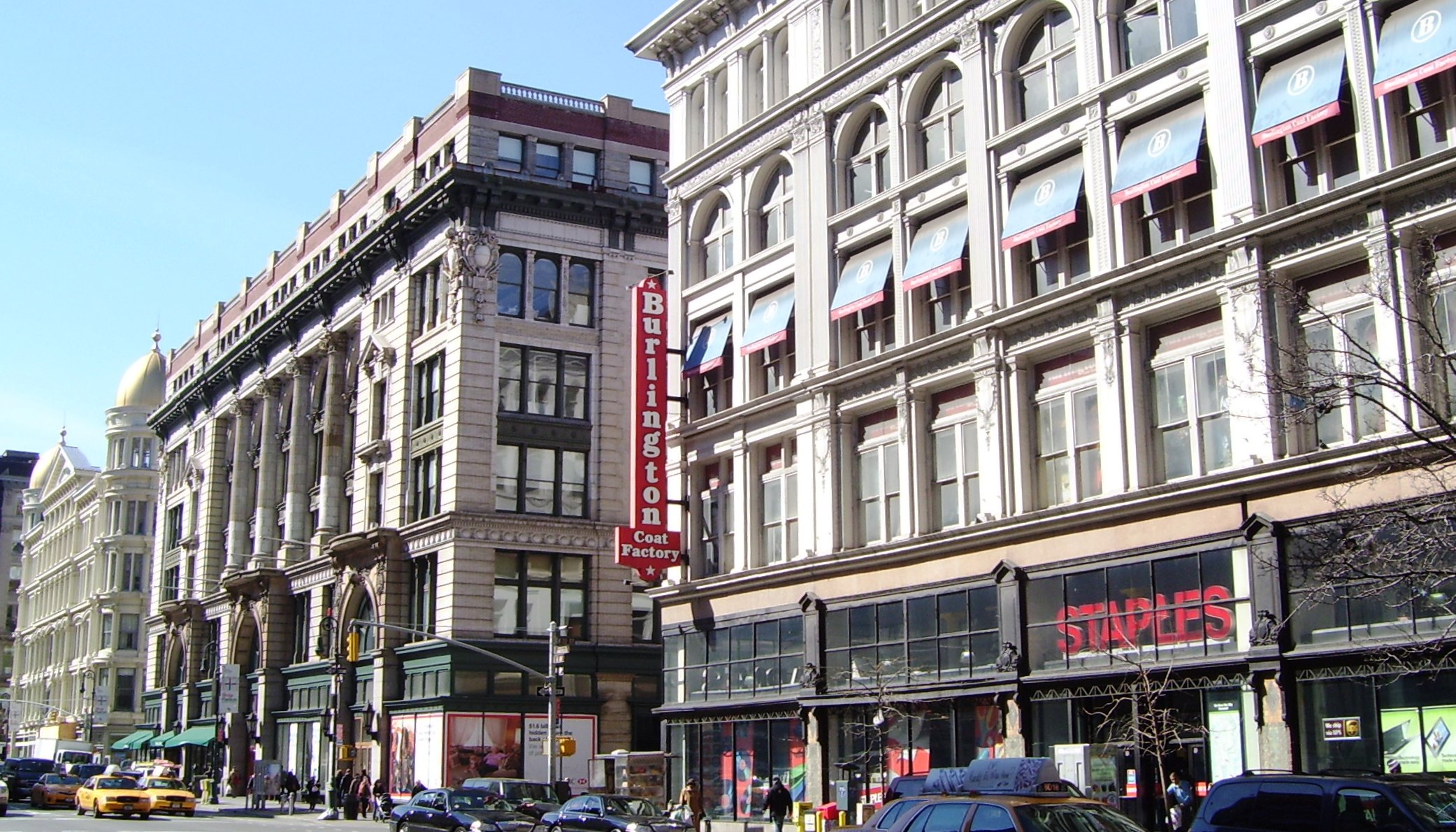 The Ladies' Mile Historic District in the Flatiron District neighborhood of Manhattan, New York City features the buildings along the Avenue of the Americas (Sixth Avenue) between 14th and 23rd Street which were once the homes of the city's most prestigious department stores (then called "dry goods stores") from the middle to late 19th century into the early 20th century. In this photo, from left to right: 695 Sixth Avenue (right foreground) - originally the Ehrich Brothers Emporium (William Schikel, 1889; Buchman & Deisler, 1894; Buchman & Fox, 1902) 675 Sixth Avenue (center) - originally Adams Dry Goods Store (Delemos & Cordes, 1900-1902) 655 Sixth Avenue (left background) - originally Hugh O'Neill's Dry Goods Store (Mortimer C. Merritt; 1887, 1890, 1895)